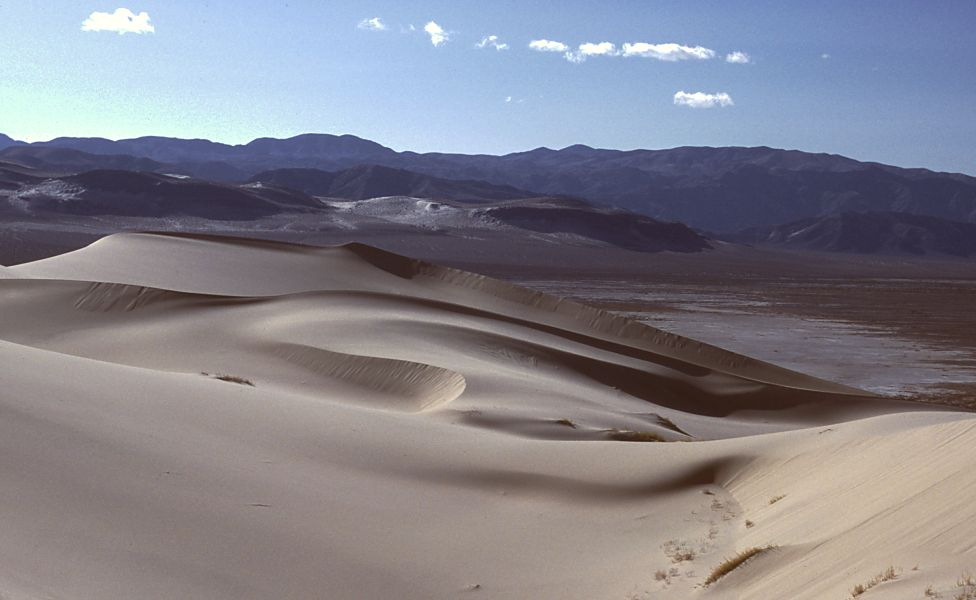 View from within the Eureka Dunes, California, looking west.